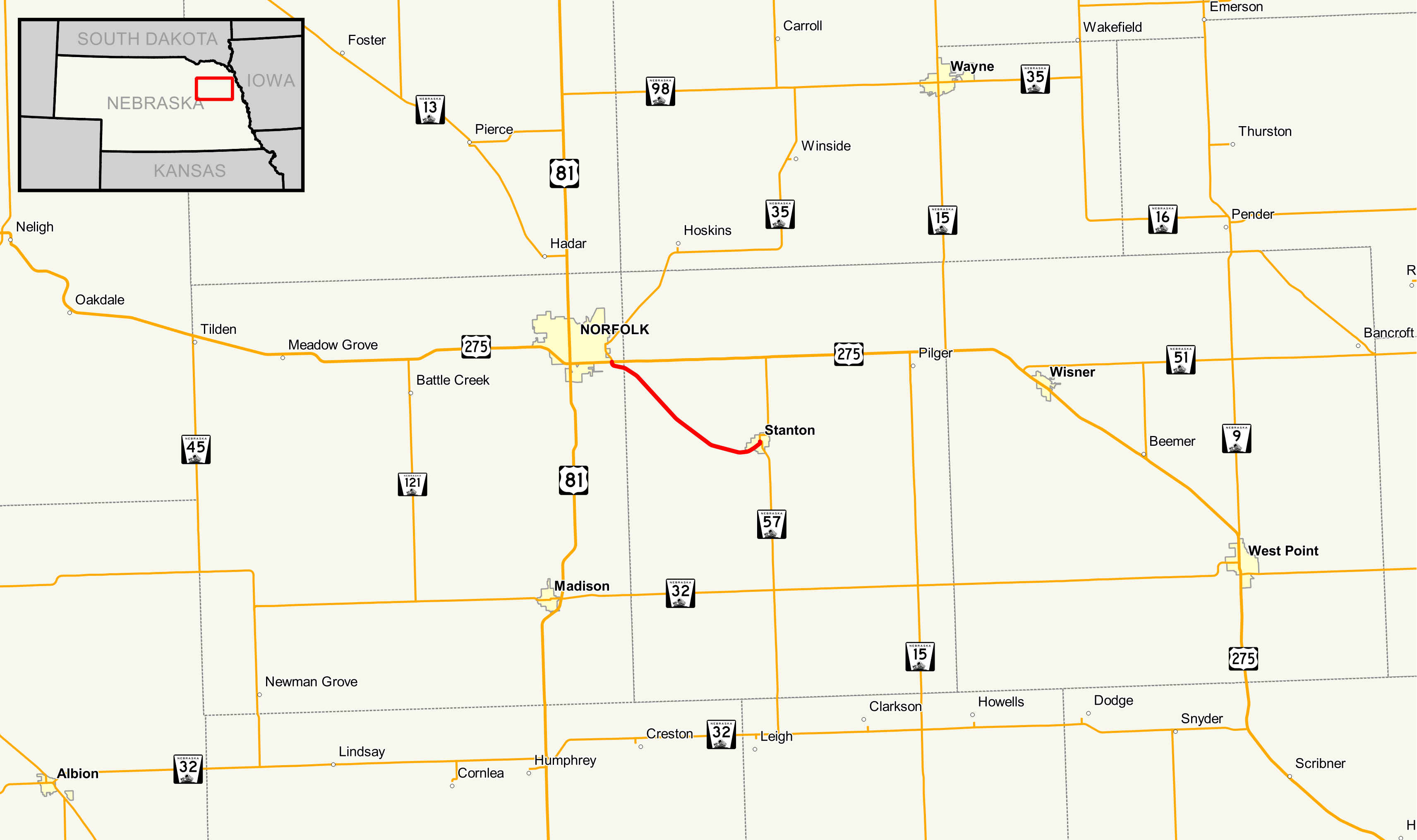 Map of Nebraska Highway 24 Data Sources: Nebraska Highways - - Dec 2016 Nebraska County Boundaries - - Dec 2016 Nebraska City Boundaries - - Dec 2016 This PNG graphic was created with QGIS